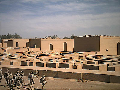 troops near the ruins of the biblical city of Babylon during the Iraq war